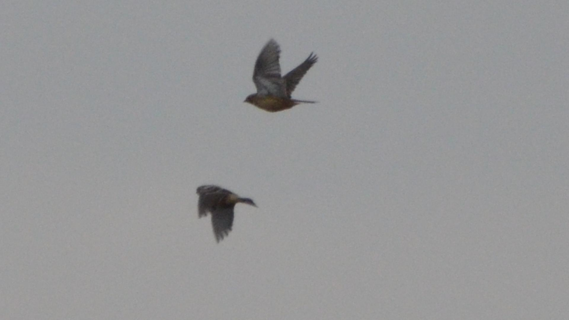 Hi Lonesome Prairie CA in Missouri on 11/5/12